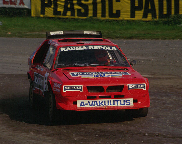 Finnish rallycross driver Matti Alamäki in his Lancia Delta S4 at Lydden Hill.